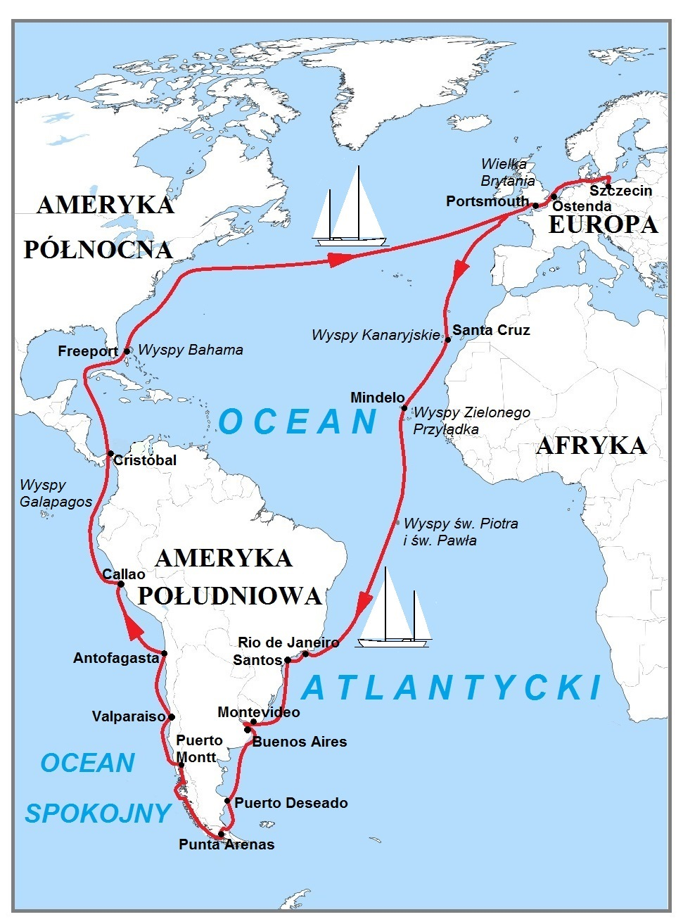 SY Smiały route around South America